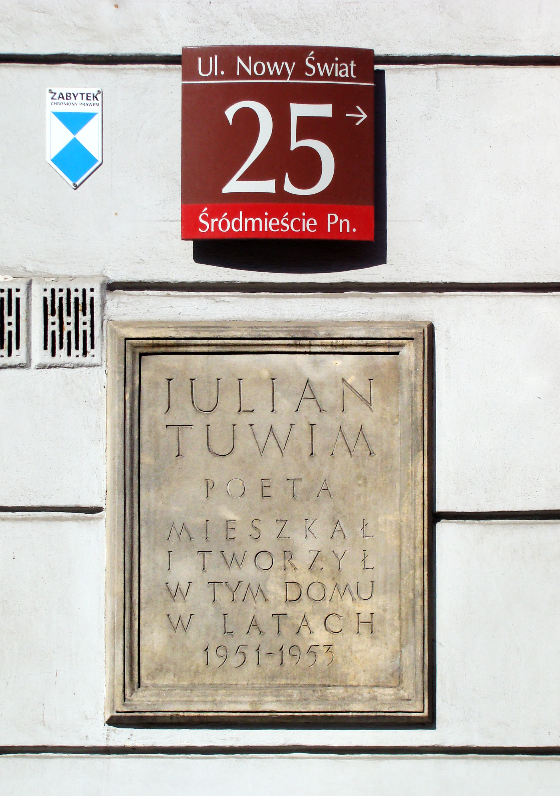 Commemorative plate for the Polish poet Julian Tuwim, Nowy Świat St., Warsaw